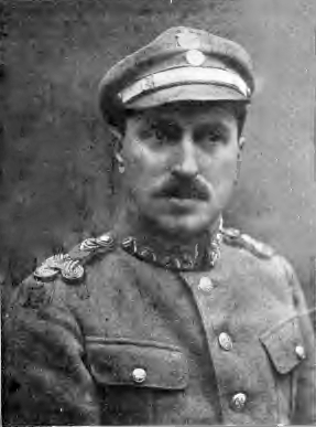 Emil Rauer as a commander of Wojskowa Straż Kolejowa